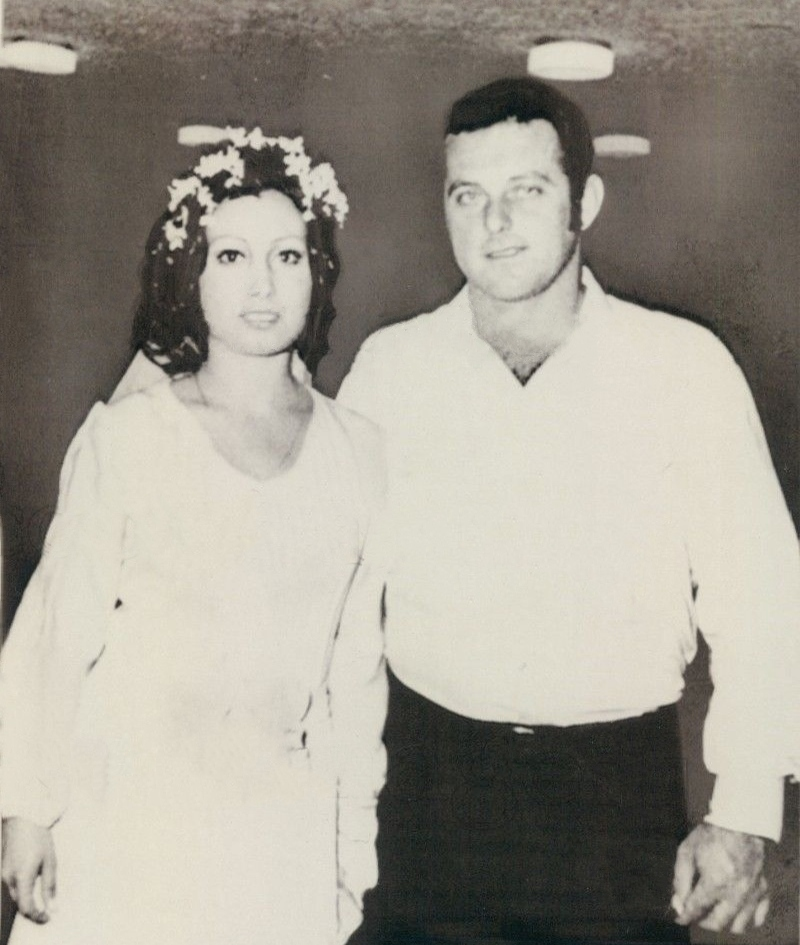 1971 Press Photo Israeli Olympic Wrestling Coach Moshe Weinberg & Wife Mimi